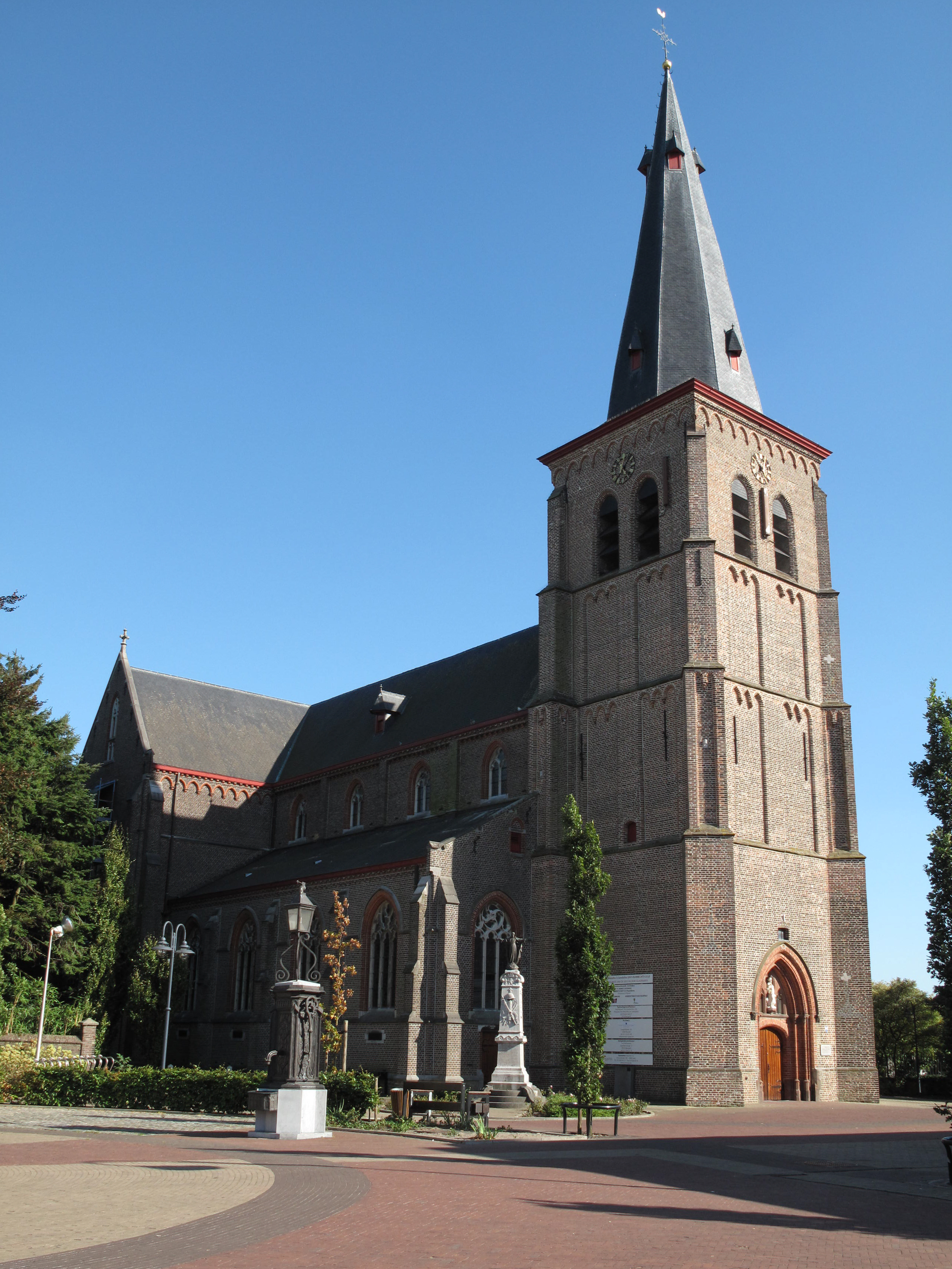 Sint Huibregts-Lille, church: Sint Mondulphus en Gondulphuskerk